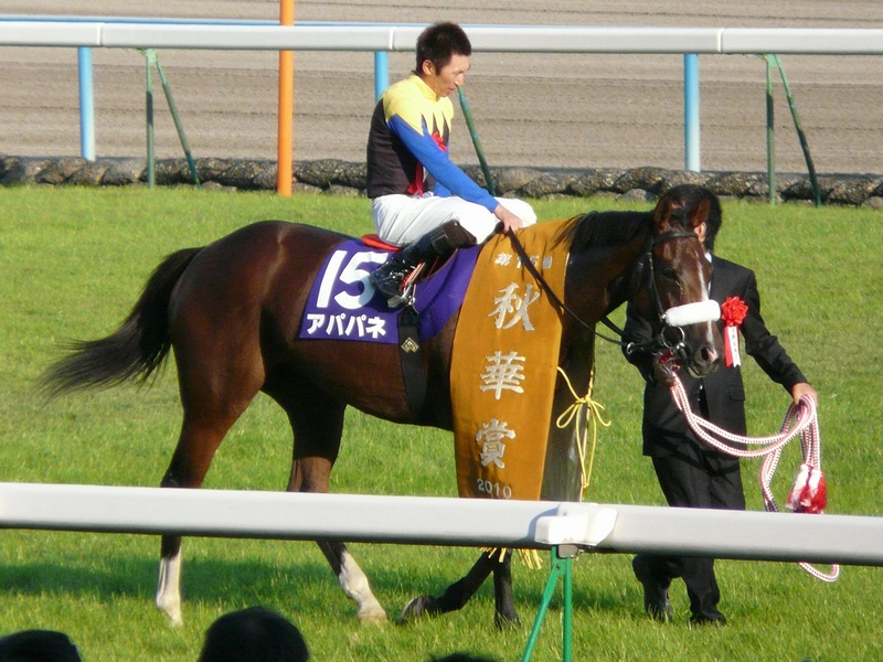 Apapane(horse)20101017(2)